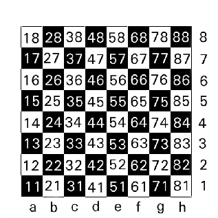 The chess correspondig notation